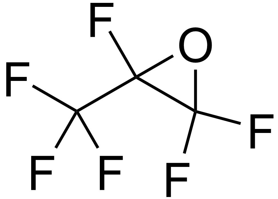 chemical structure of hexafluoropropylene oxide (HFPO)